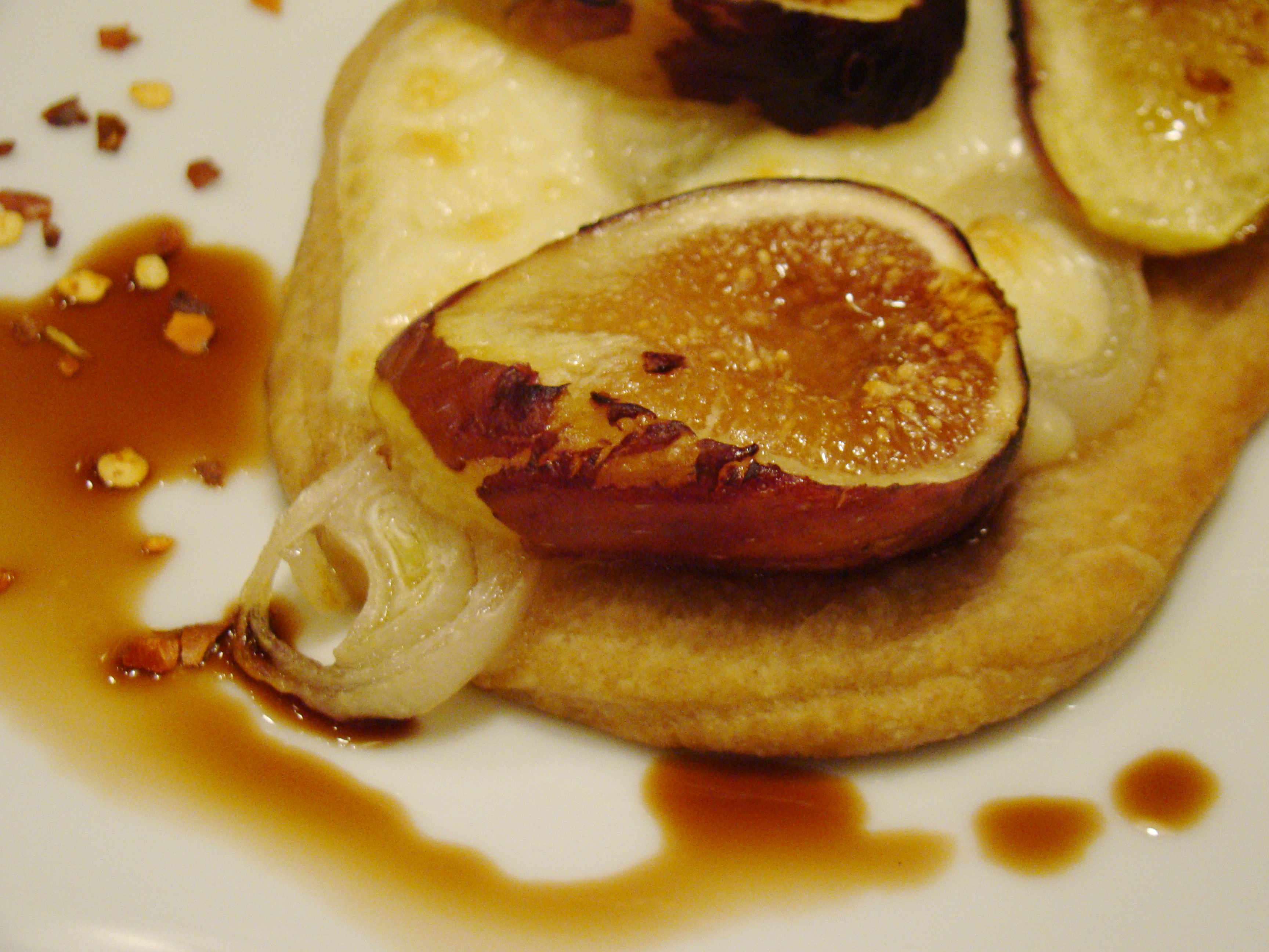 Fig and Shallot Pizzette with Balsamic Vinegar